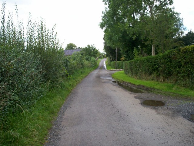 The Slopes between the Plantation Road and the Crowhill Road.